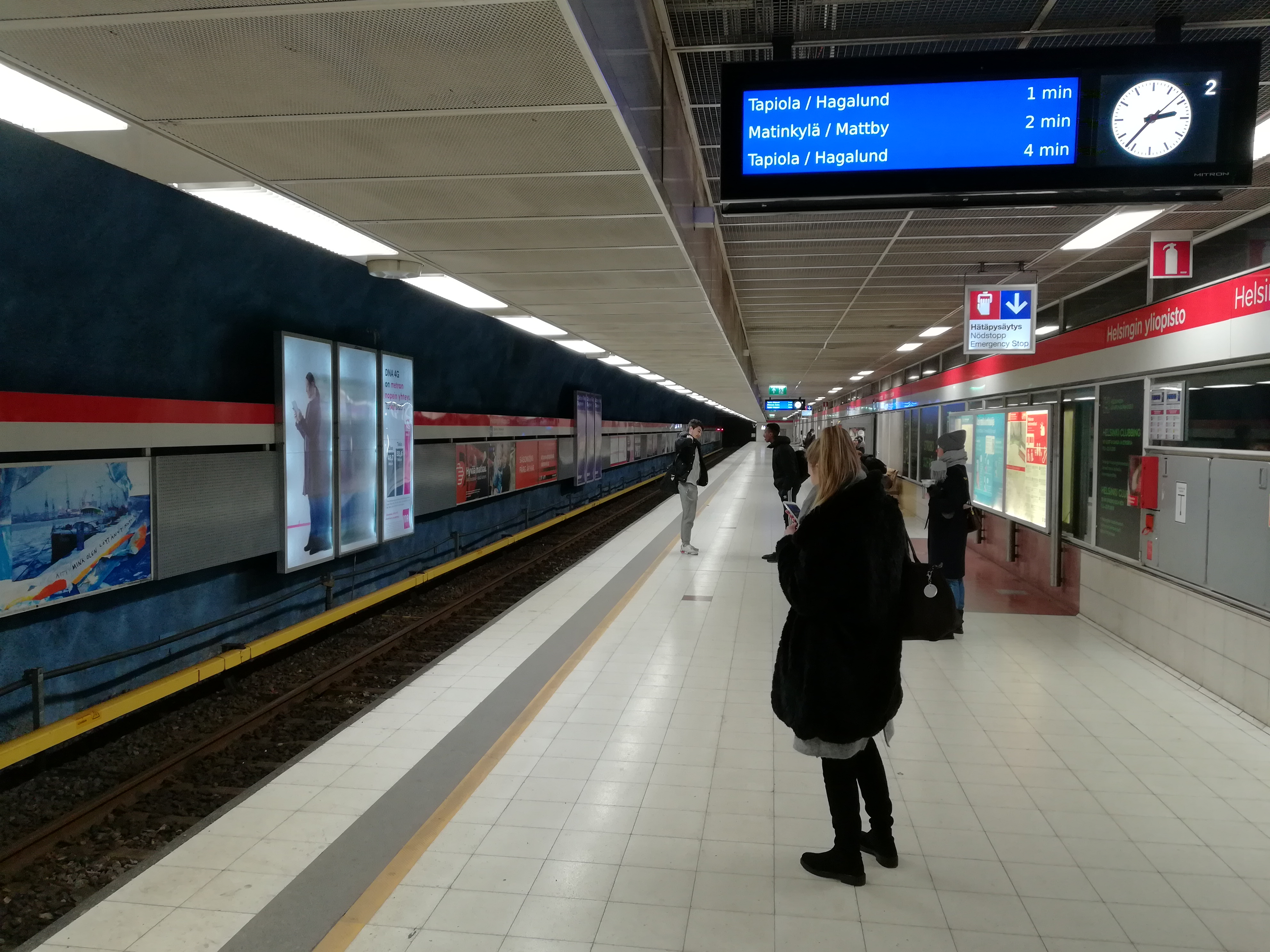 University of Helsinki metro station on February 23rd, 2018.